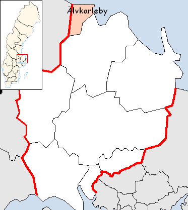 Älvkarleby Municipality in Uppsala County Designd by me, based on Image:Uppsala County.png